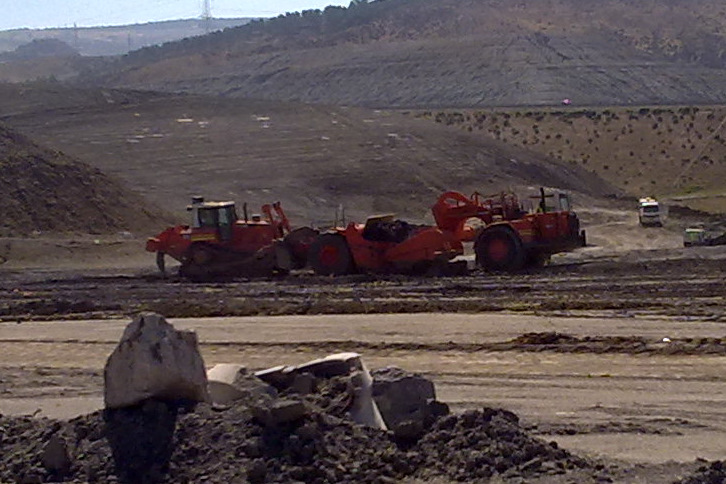 scaper in load